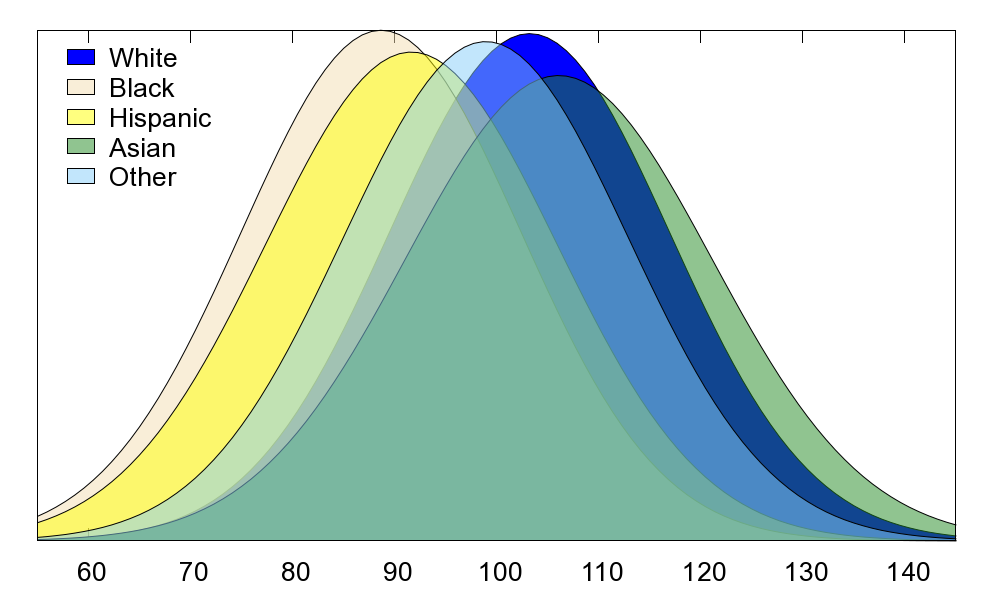 Approximate Wechsler Adult Intelligence Scale IV full-scale IQ score distributions for US racial and ethnic groups. The data are based on samples matched to the US Census for education and region of the country within racial/ethnic group. Group, mean score (standard deviation), sample size: White, 103.21 (13.77), 1540 Black, 88.67 (13.68), 260 Hispanic, 91.63 (14.29), 289 Asian, 106.07 (15.01), 71 Other*, 98.93 (13.99), 40 * Consists of Native American Indians, Alaskan Natives, and Pacific Islanders.